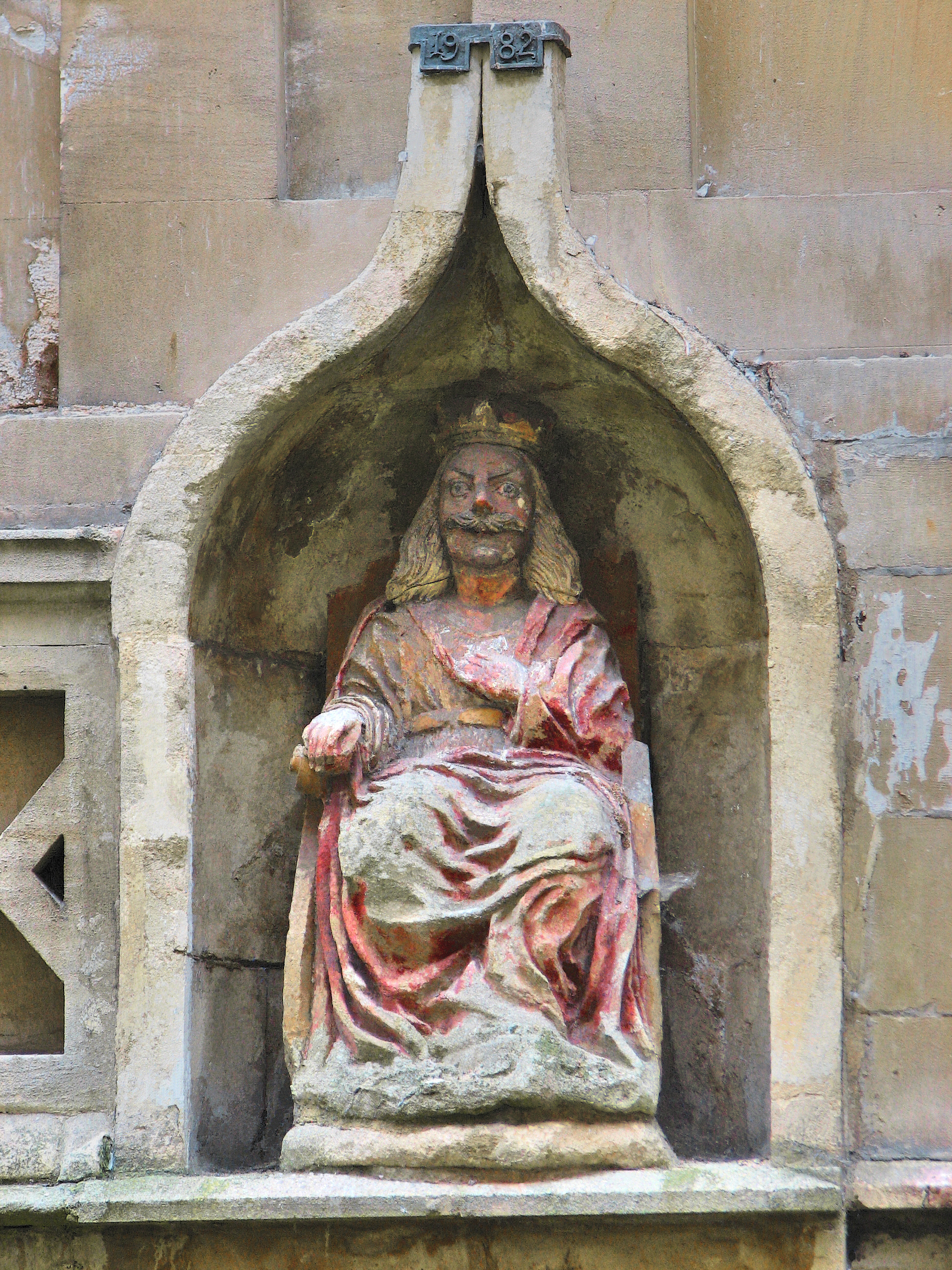 The statue of king Bladud at the Roman Baths, Bath, England.